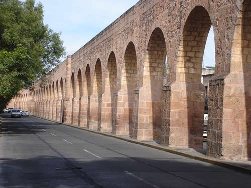 Aqueducts running through downtown Morelia, Mexico